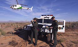 Border Patrol Agents watch for illegal entry from Mexico into the U.S.